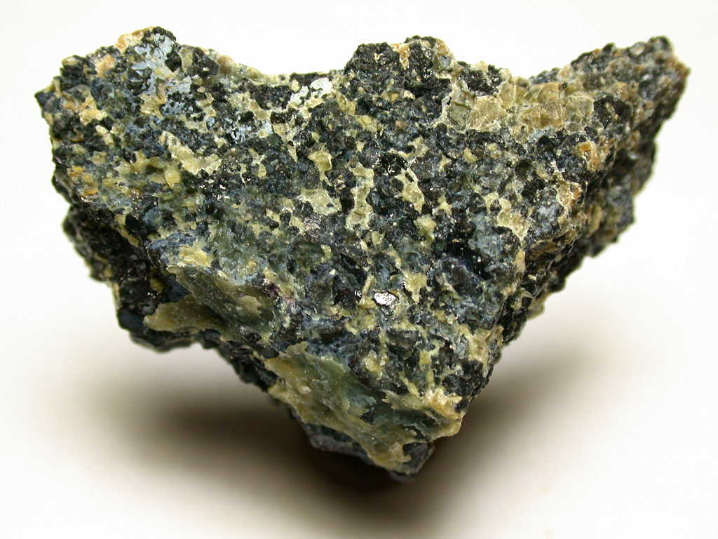 Magnesiochromite Locality: Mistake Mine (Butler Estate Mine; Mistaken; Big Ridge & Mistake Mine; James-Thickston; James-Thickstun Mine), Butler Estate Chrome deposit, Wright Mountain, New Idria District, Diablo Range, Fresno Co., California, USA A 3.2 by 2.5 cms mass of rough crystals. JSS specimen and photo